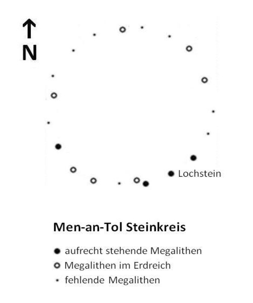 Men-an-tol Stone Circle